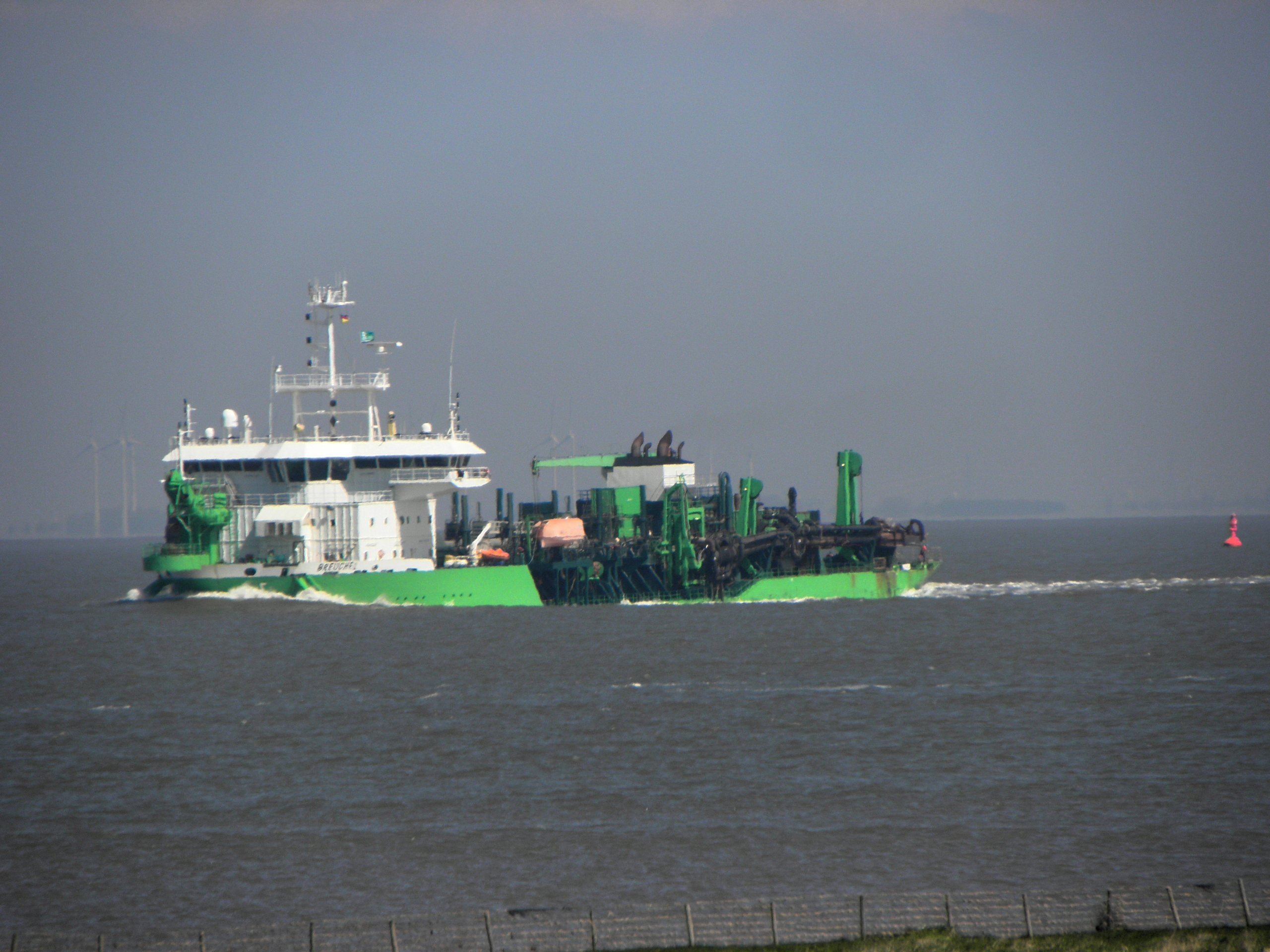 Aus Cuxhaven Mai 2017